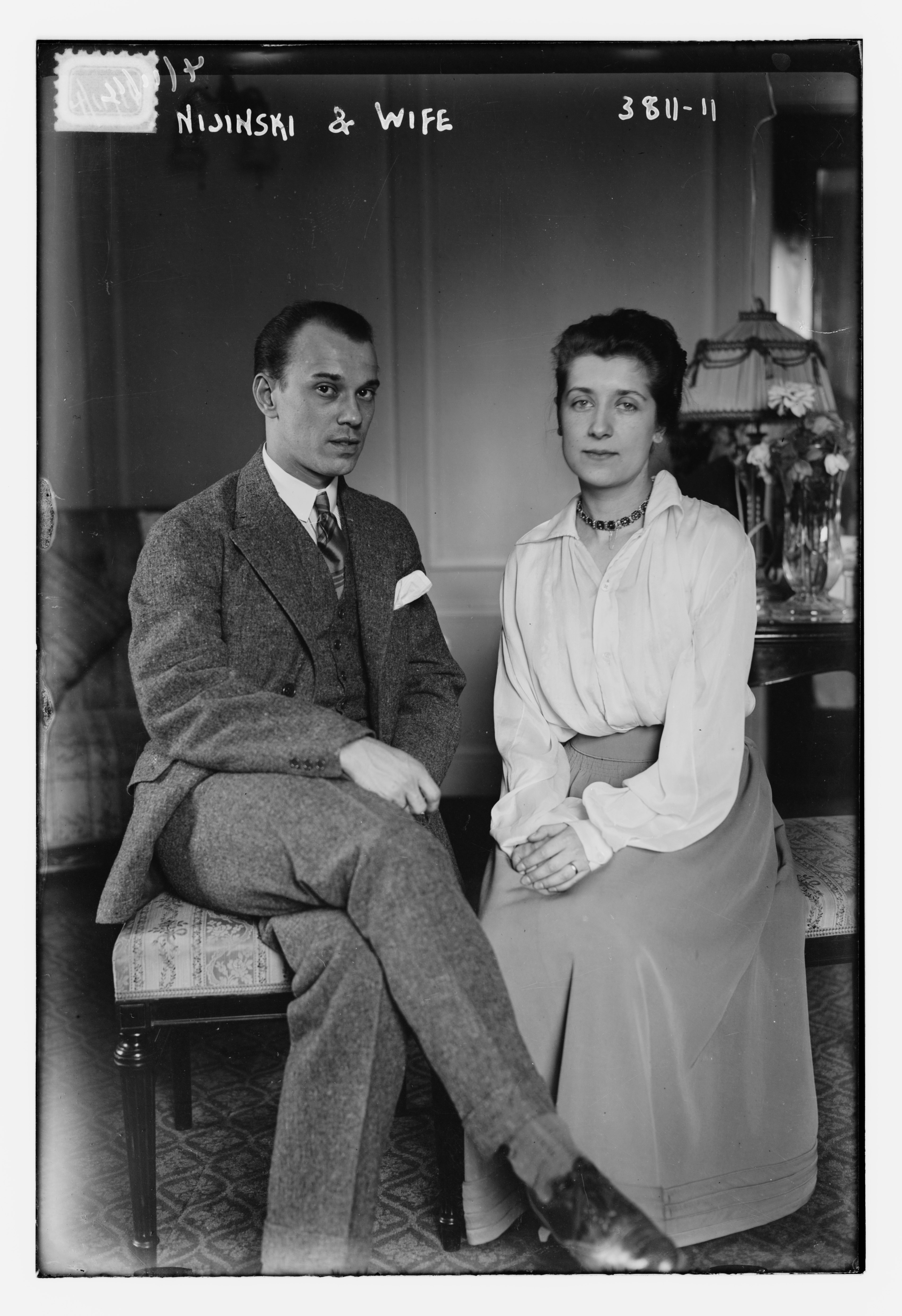 Title: Nijinski and wife Abstract/medium: 1 negative : glass ; 5 x 7 in. or smaller.